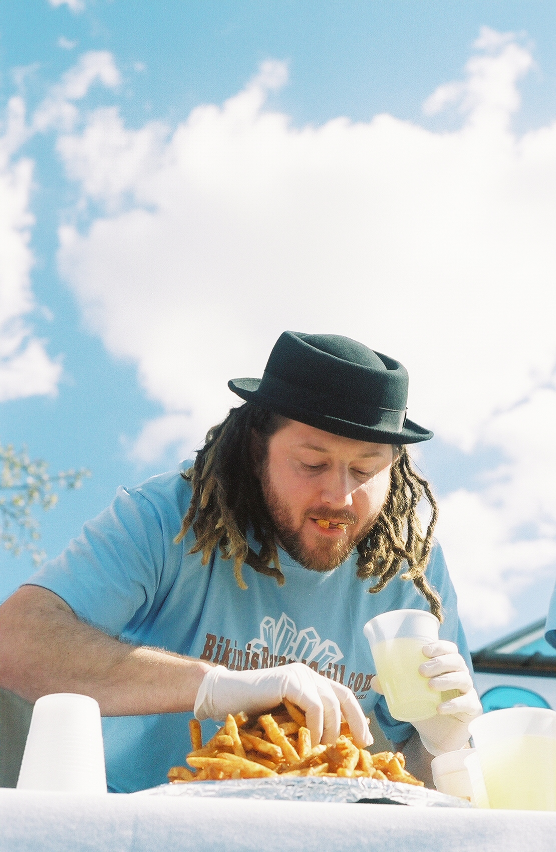 American competitive eater Crazy Legs Conti, at french fry eating contest at Bikini's Bar and Grill in Austin, Texas, January 27, 2007.